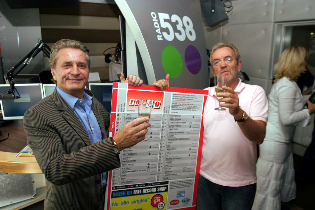 Hans Breukhoven & Lex Harding present a newly issued Dutch Top 40 single chart